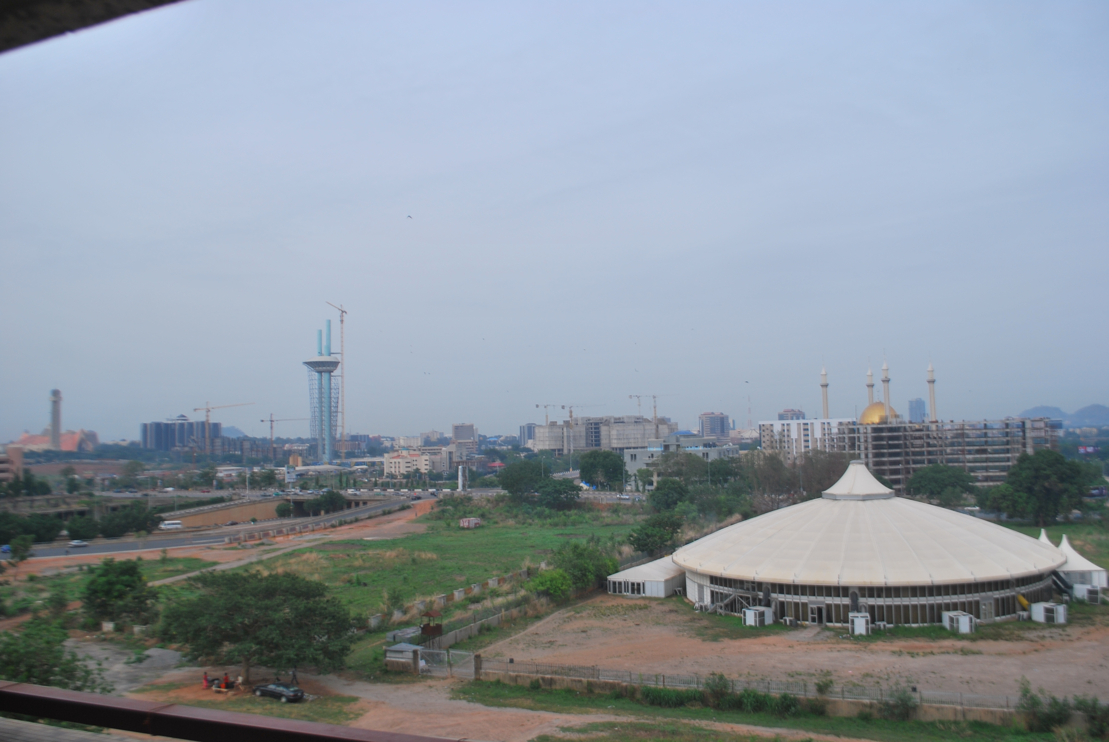 Central business district abuja